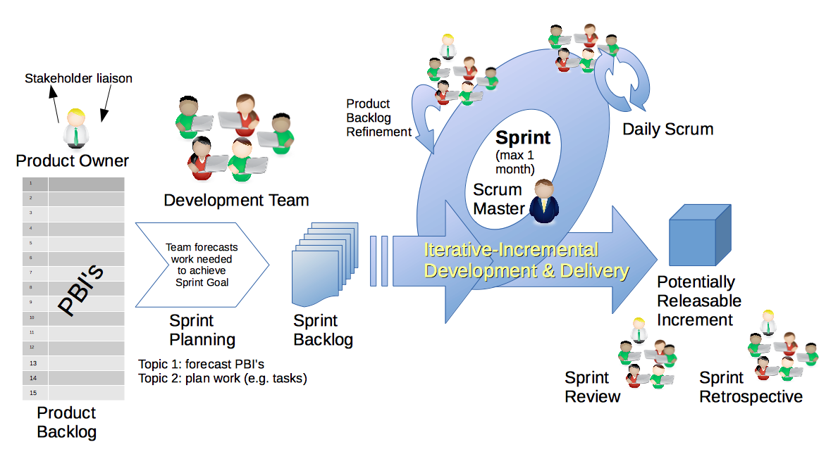 Schematic of the Scrum Framework process